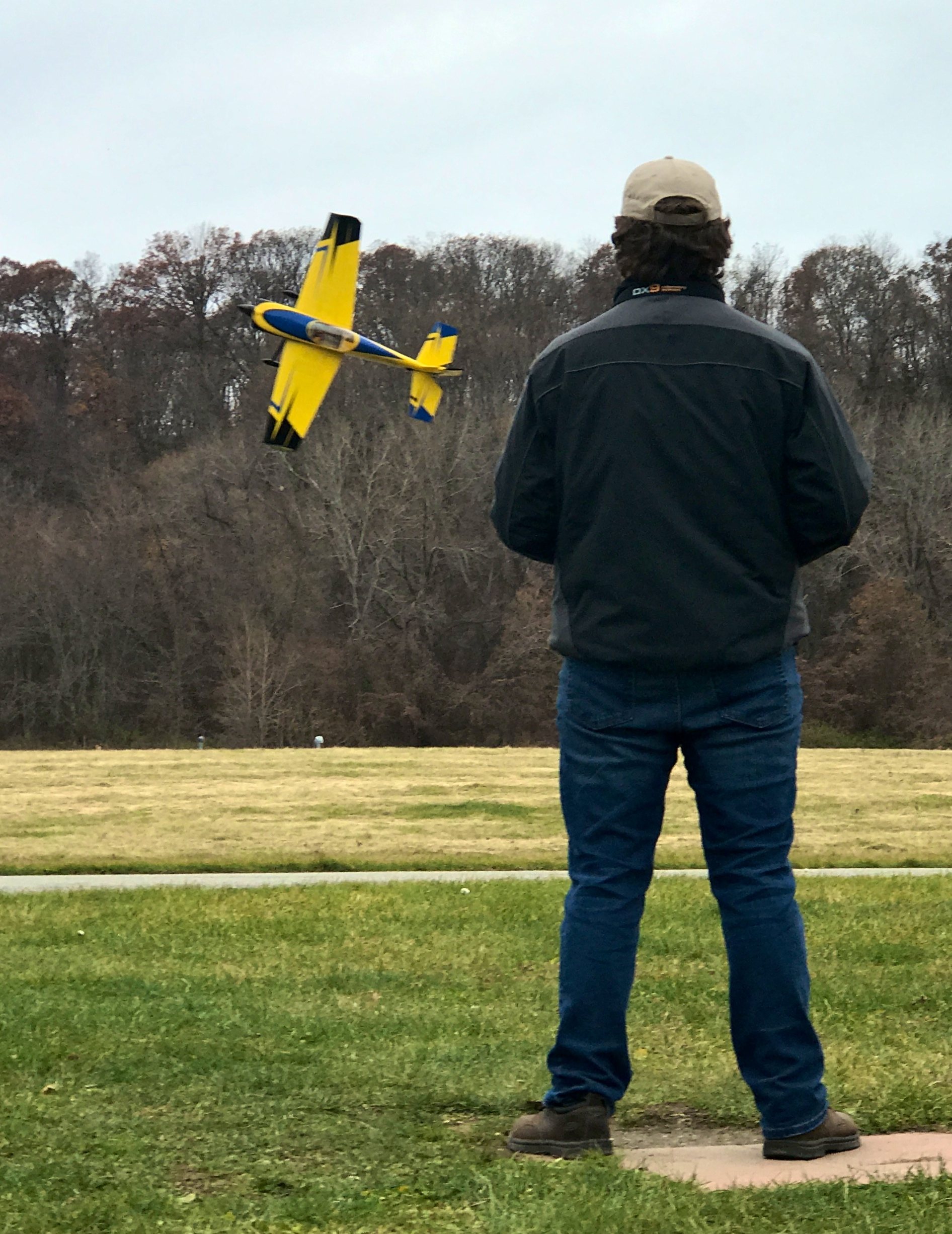 Hobbyist demonstrating the knife edge with an Extreme Flight 74" Slick, a radio-controlled airplane, at the HHAMS Aerodrome.